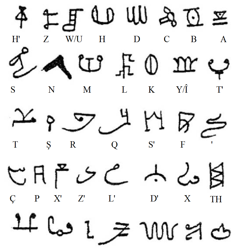 Old Kurdish alphabet, from the book of Shawq al-Mustaham fi marifat rumuz al-alqlam, 856 AC by Ibn Wahshiyya. Presented by Latin equivalents instead of original Arabic letters of the book. From the version which inlcudes English translation by Joseph Hammer-Purgstall in 1806.